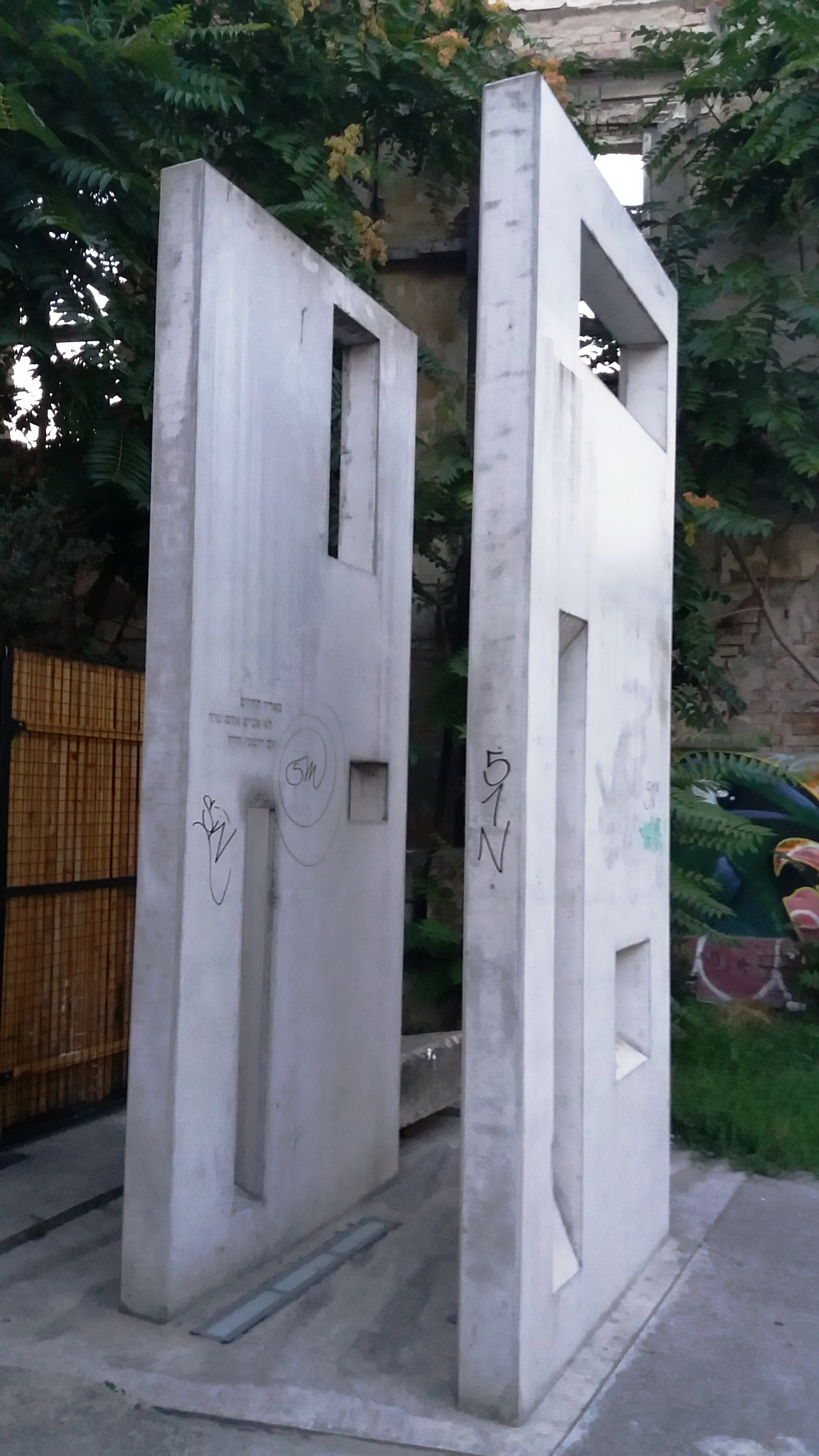 Monument to the Jews killed in the Dušegupka truck, from March to May 1942.